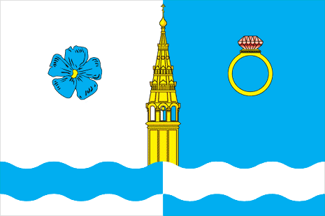 Flag of Privolzhsk, Ivanovo Region, Russia